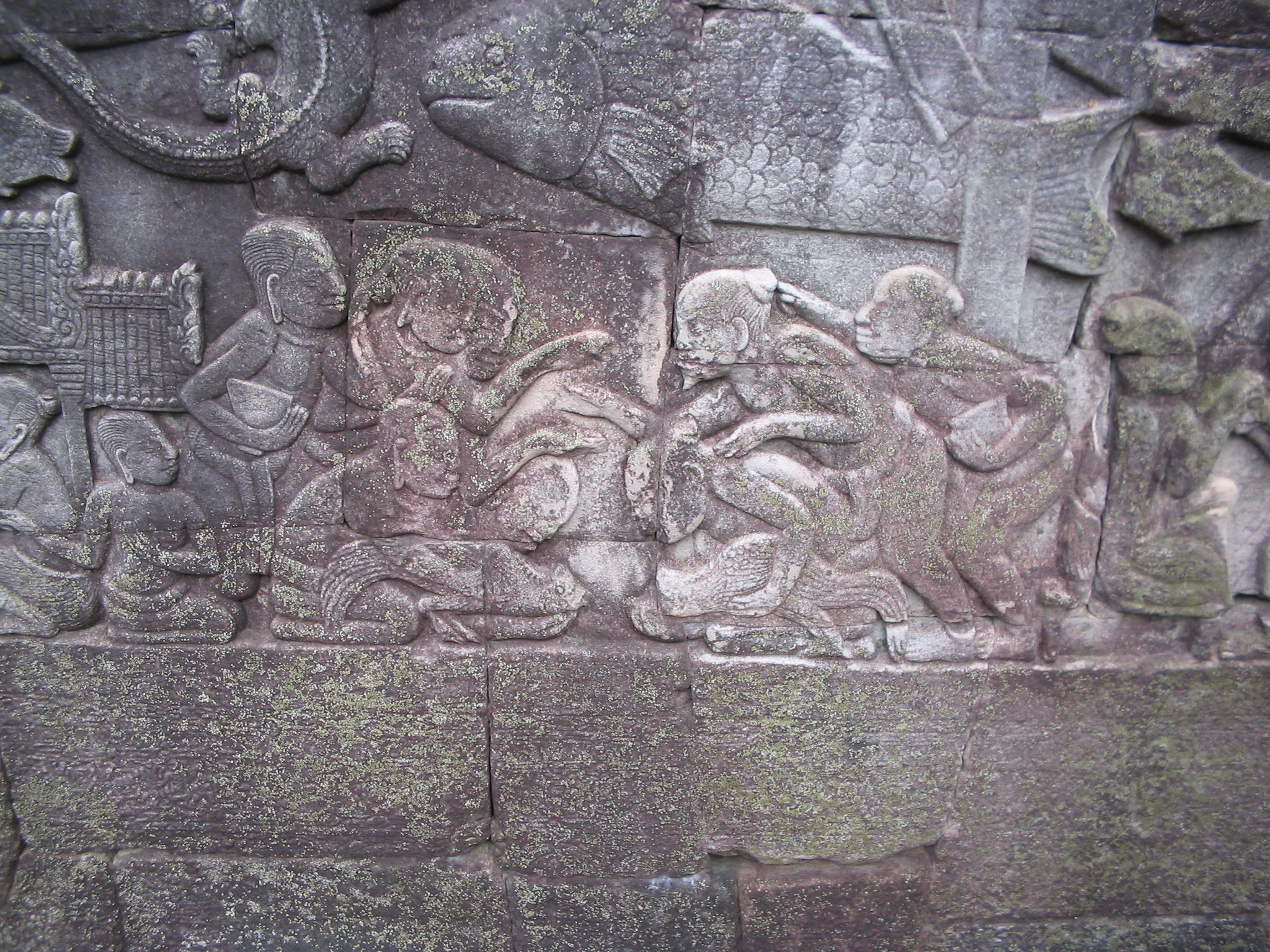 Cockfighting on Bayon ភាសាខ្មែរ: ការប្រជល់មាន់លើប្រាសាទបាយ័ន